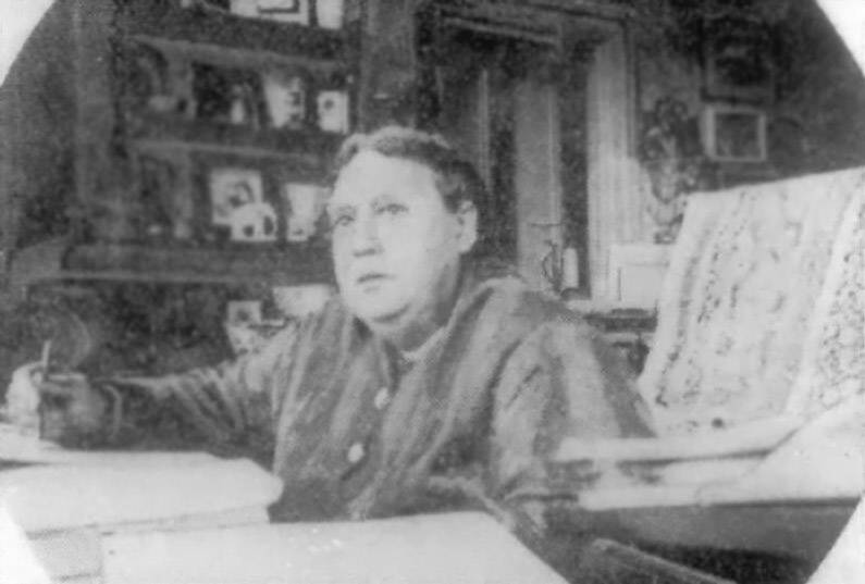 Helena Petrovna Blavatsky (1831-1891)